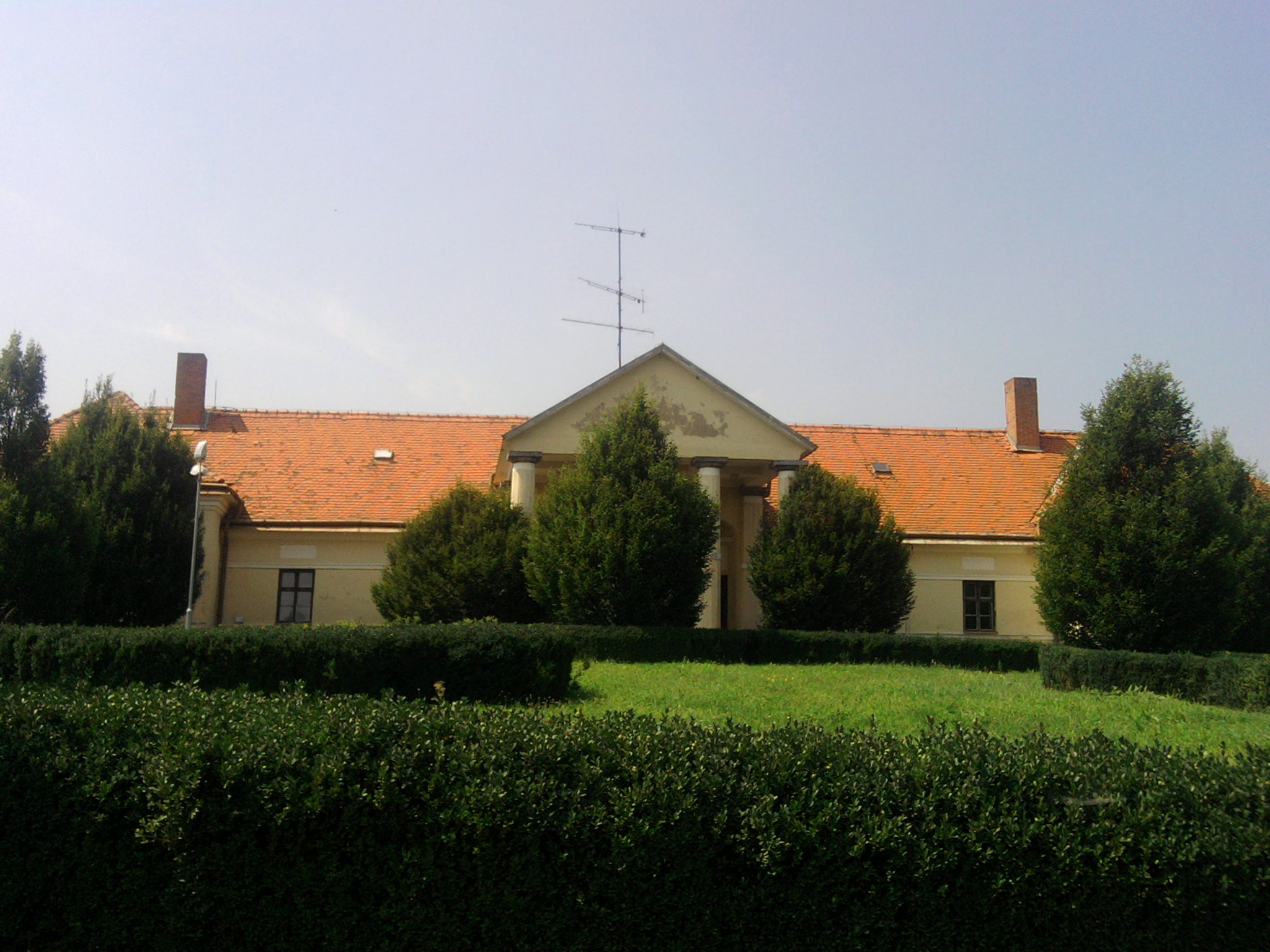 Manor in Kalinčiakovo (Levice)